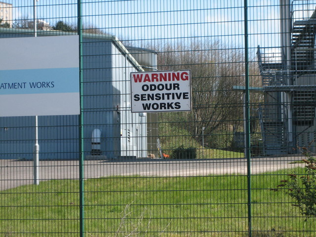 Politically correct signage! Sign on sewage treatment works next to Fife Coastal path at Kirkcaldy.